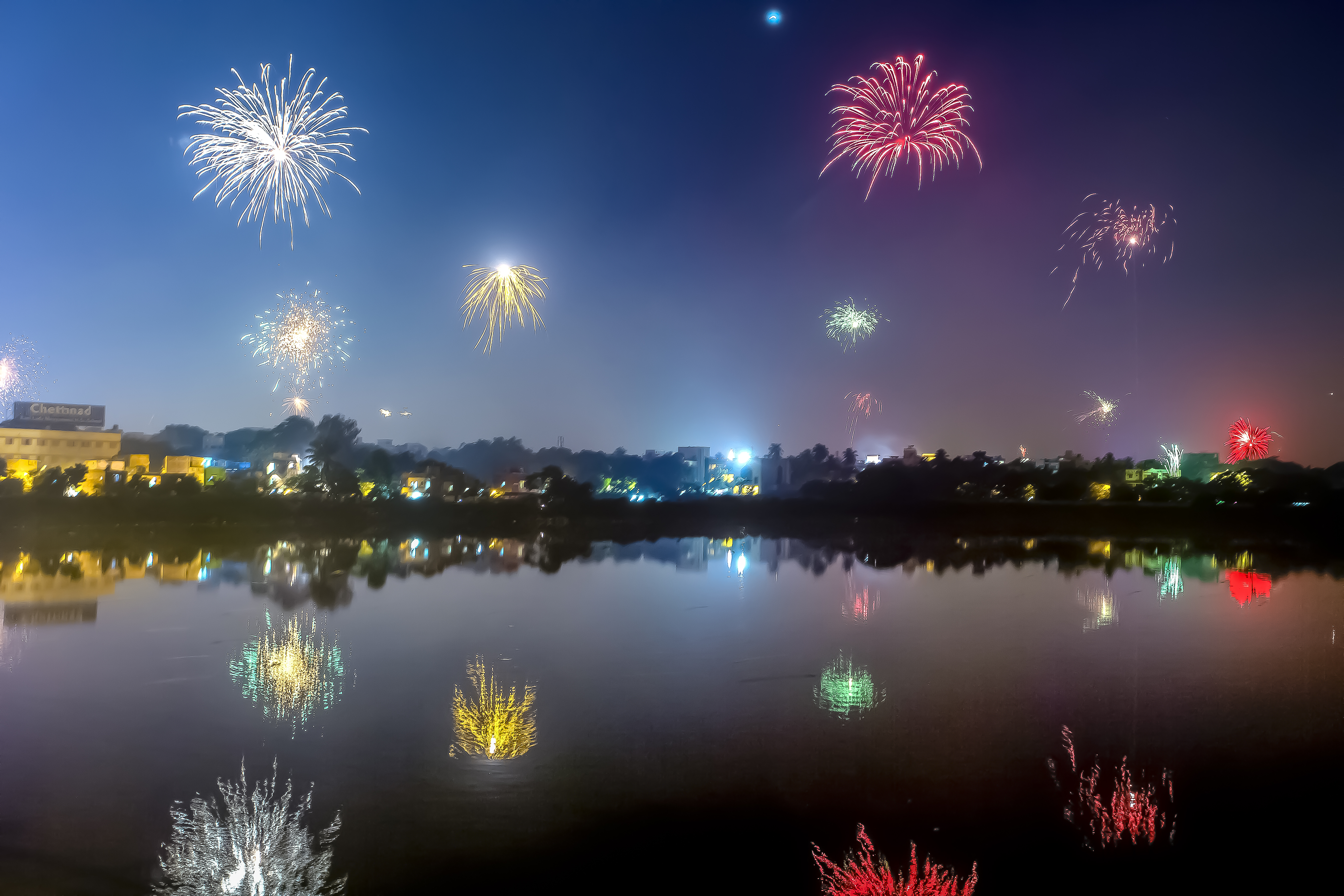 Diwali as seen from Chennai's Adyar bridge November 2013